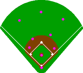 User:PSzalapski made this image and released it into the public domain. Baseball positioning, infield deep